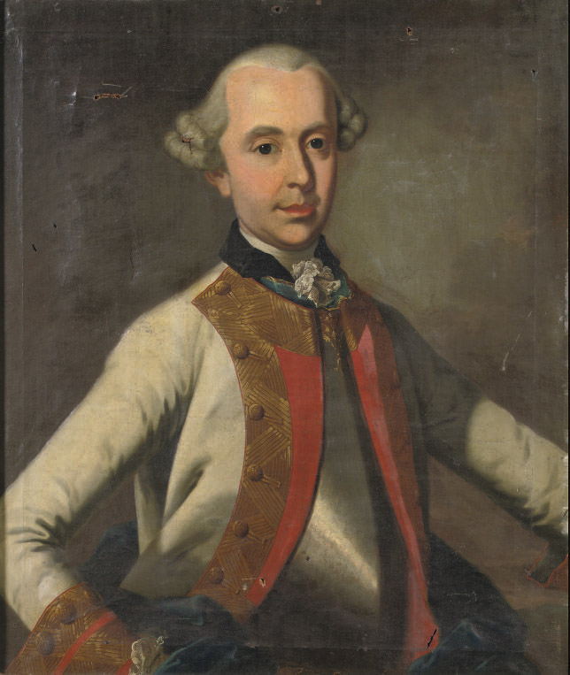 Portrait of Christian Karl, Prinstet zu Stolberg-Geldern (1725-1764), standing half-length, wearing armour